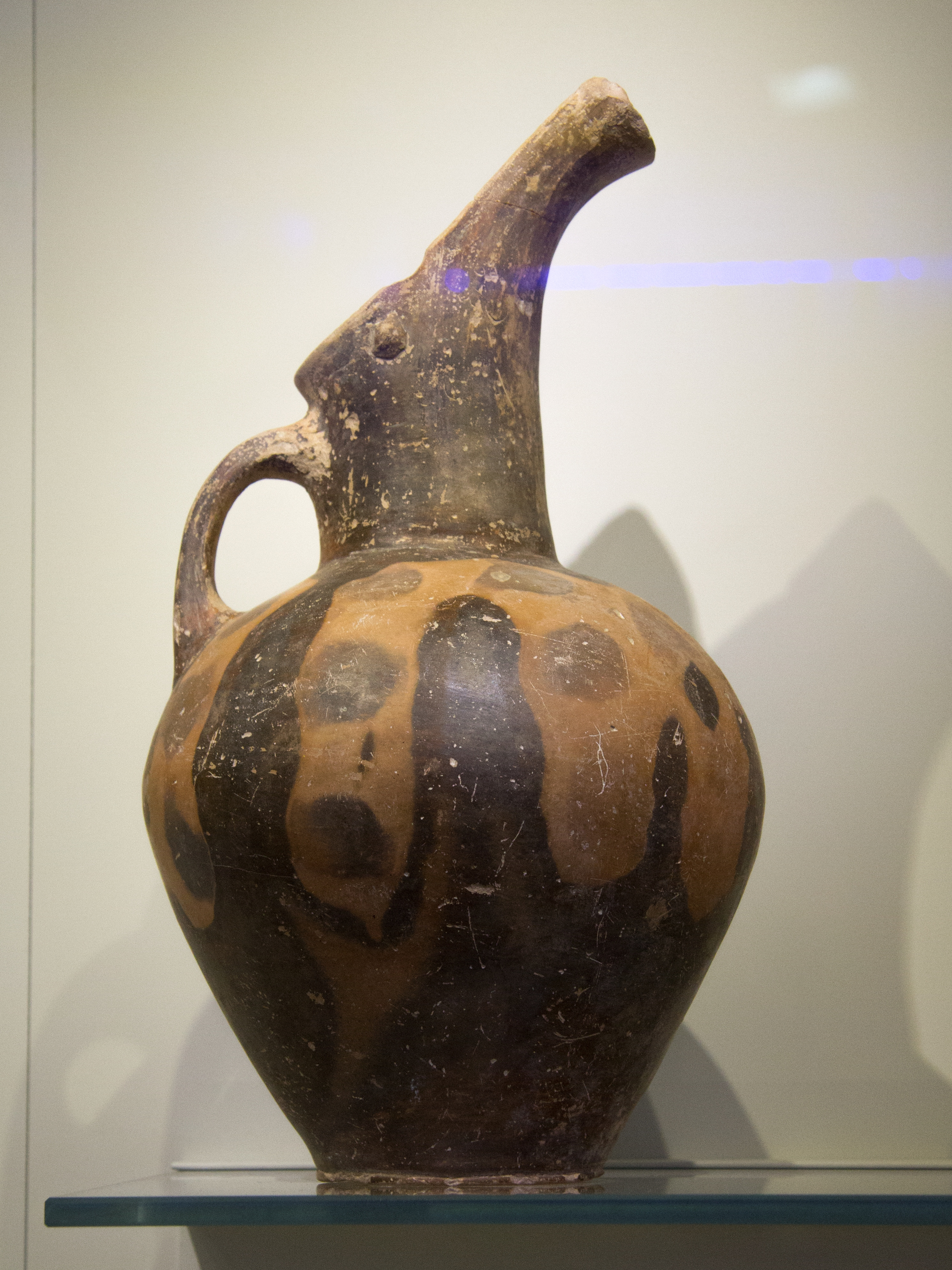 Vasiliki ware, jug, 2400-2200 BC. Found at Vasiliki in Ierapetra, Crete. Archeological Museum of Heraklion, AE 5231.